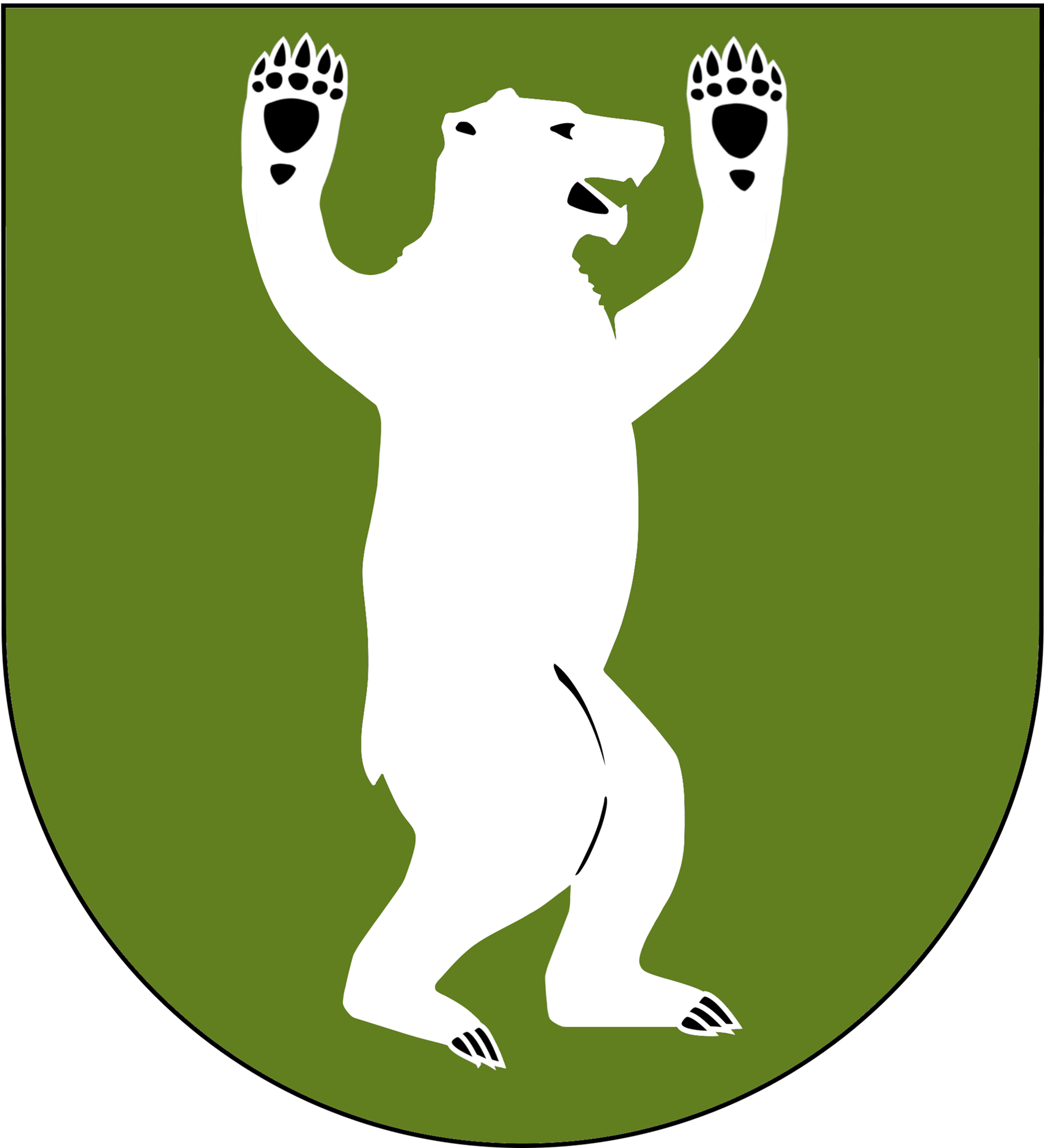 coat of arms of the Soviet 36th Guards Tank Brigade, part of the 4th Guards Mechanized Corps